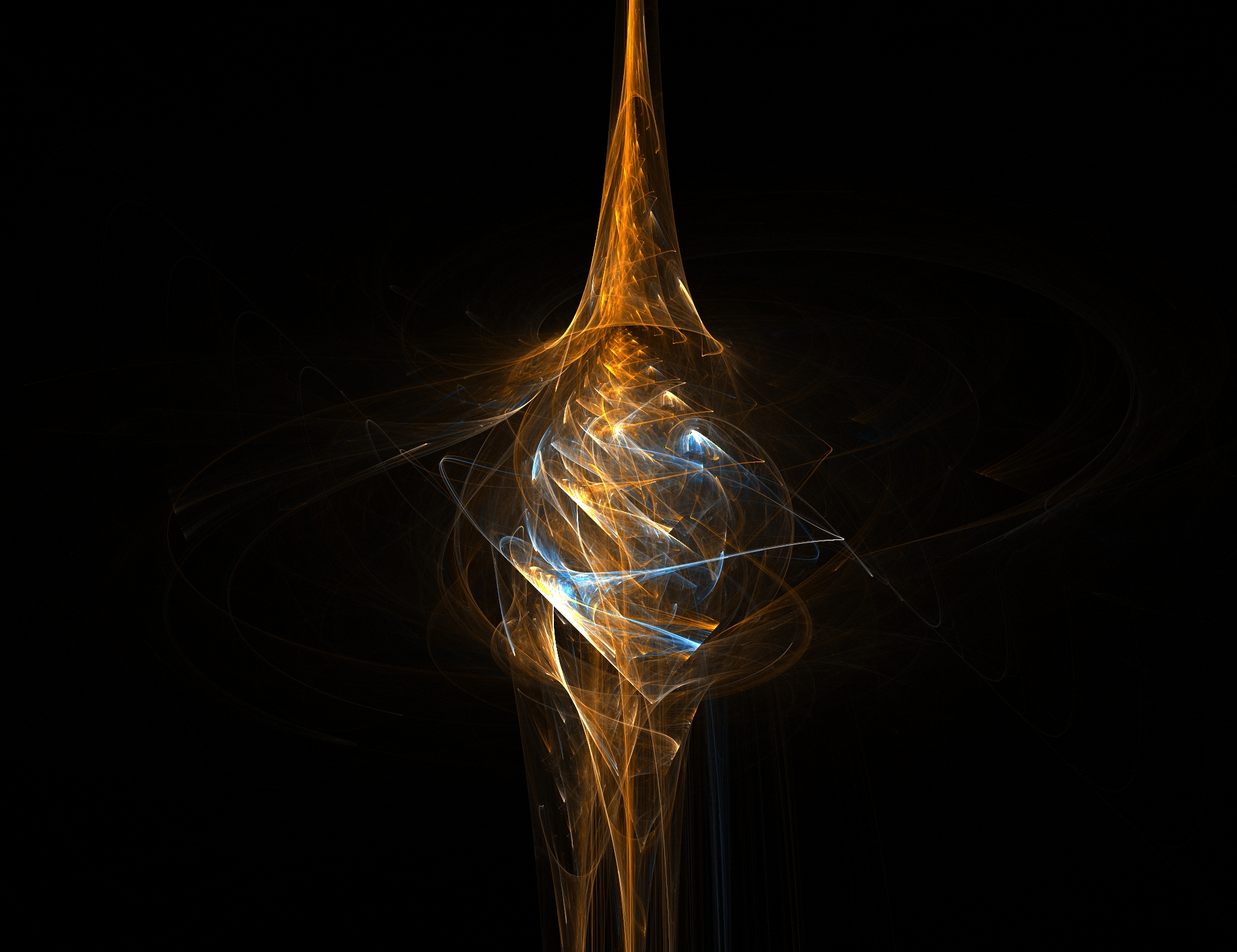 A fractal flame rendered with the program Apophysis.